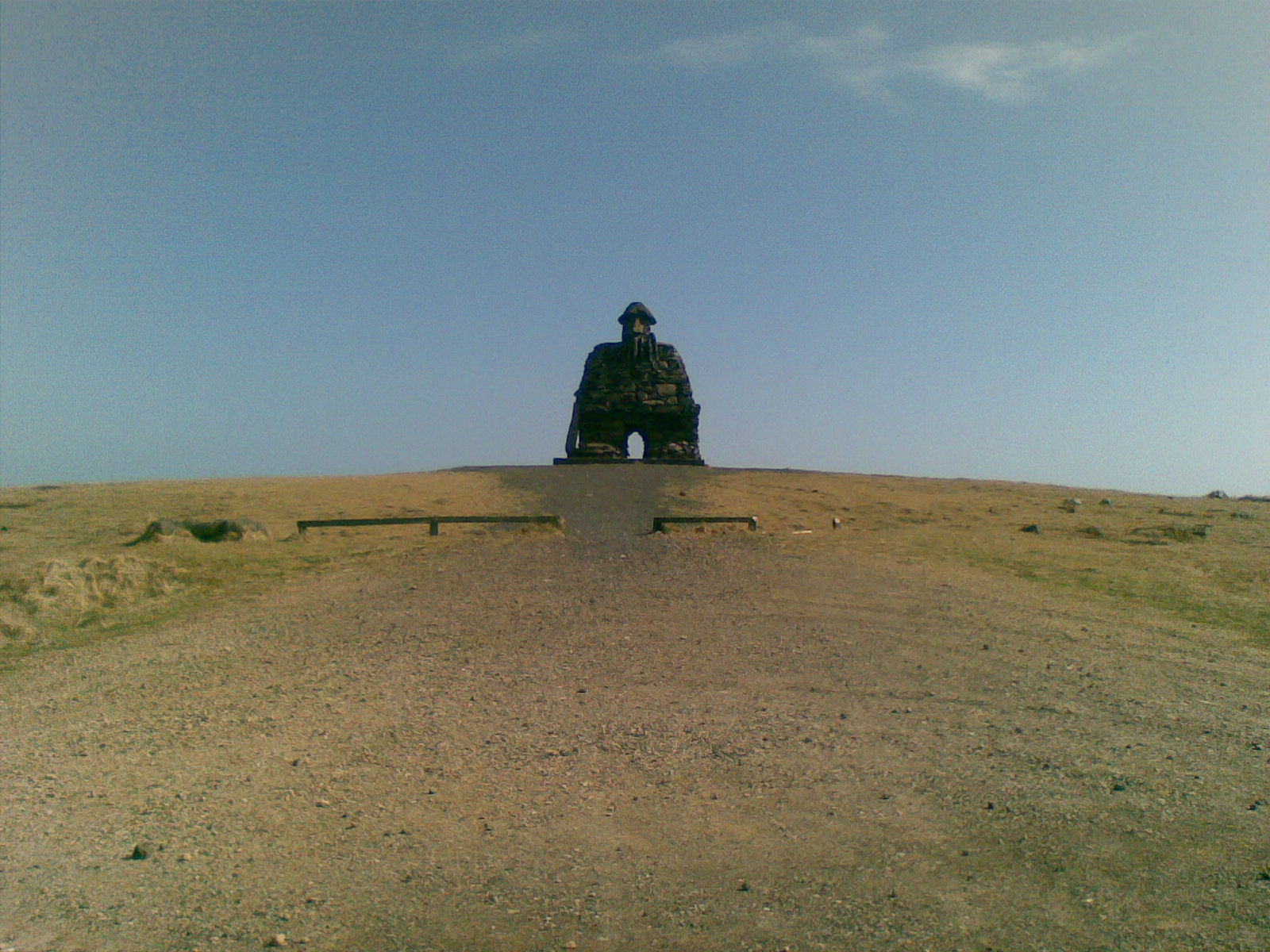 Statue in Arnarstapi